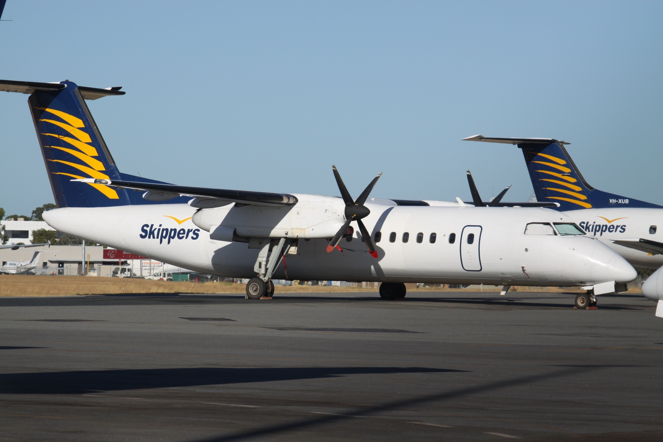 At Perth